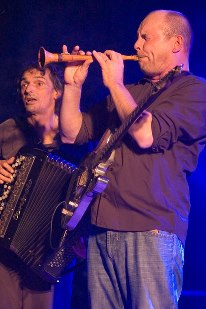 Jean-Pierre Riou et Jean-Michel Moal